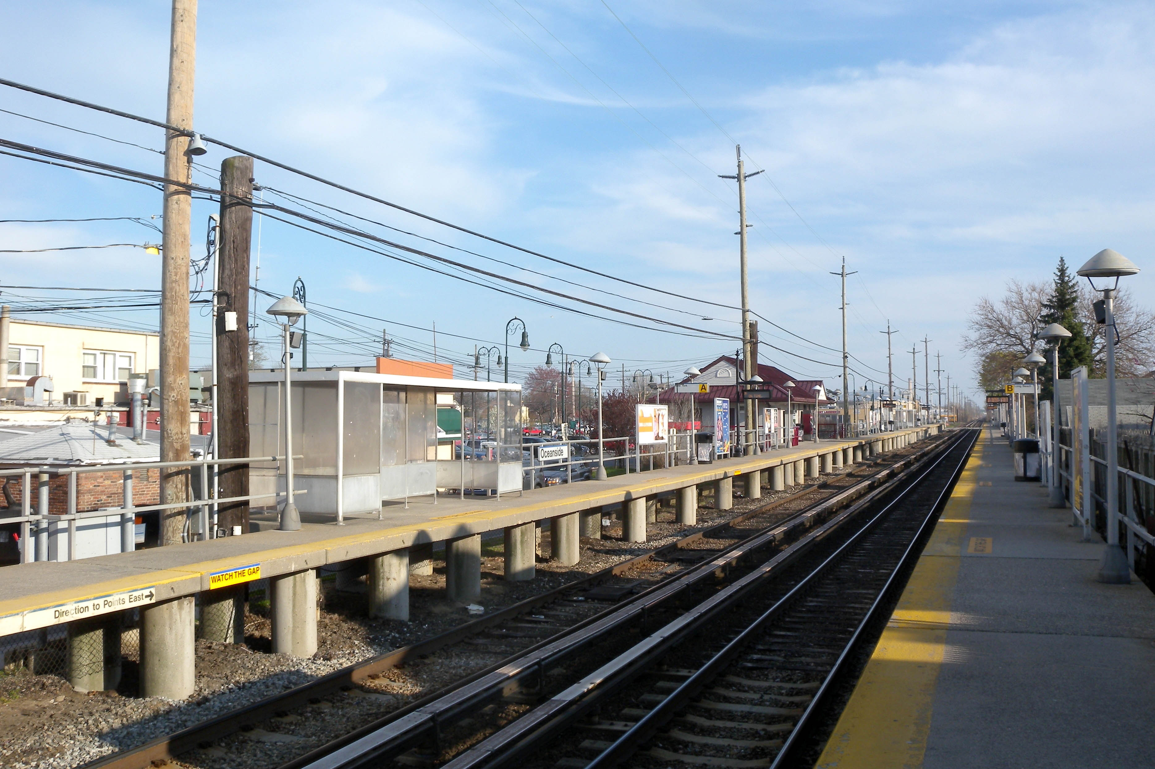 Looking southeast at Oceanside (LIRR station) platforms on a sunny afternoon.